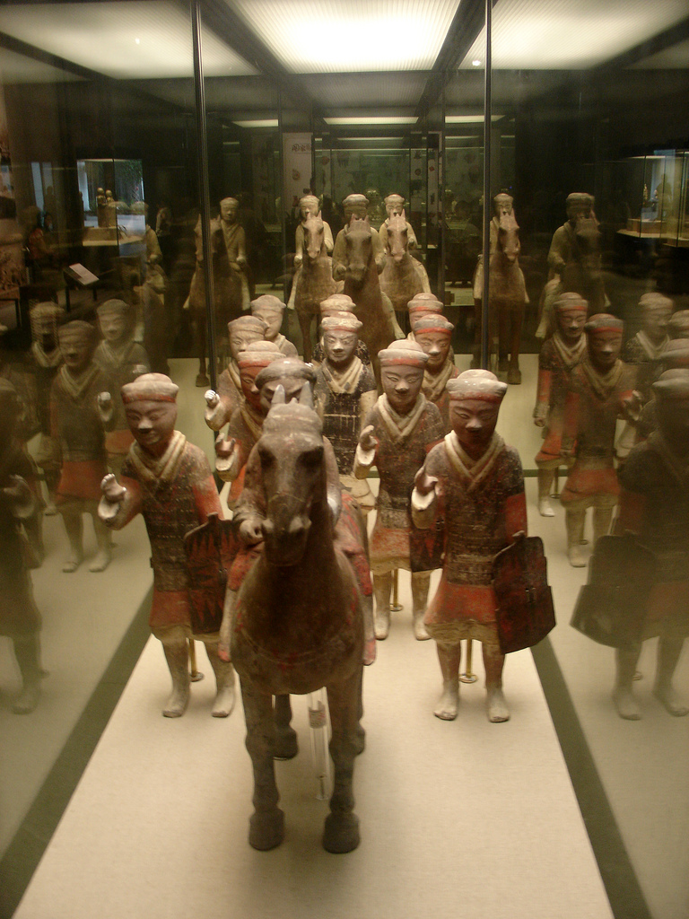 Painted ceramic statues of one Chinese cavalryman and ten infantrymen with armor, shields, and missing weapons, from the Western Han Dynasty (202 BC - 9 AD), now located at the Hainan Provincial Museum.